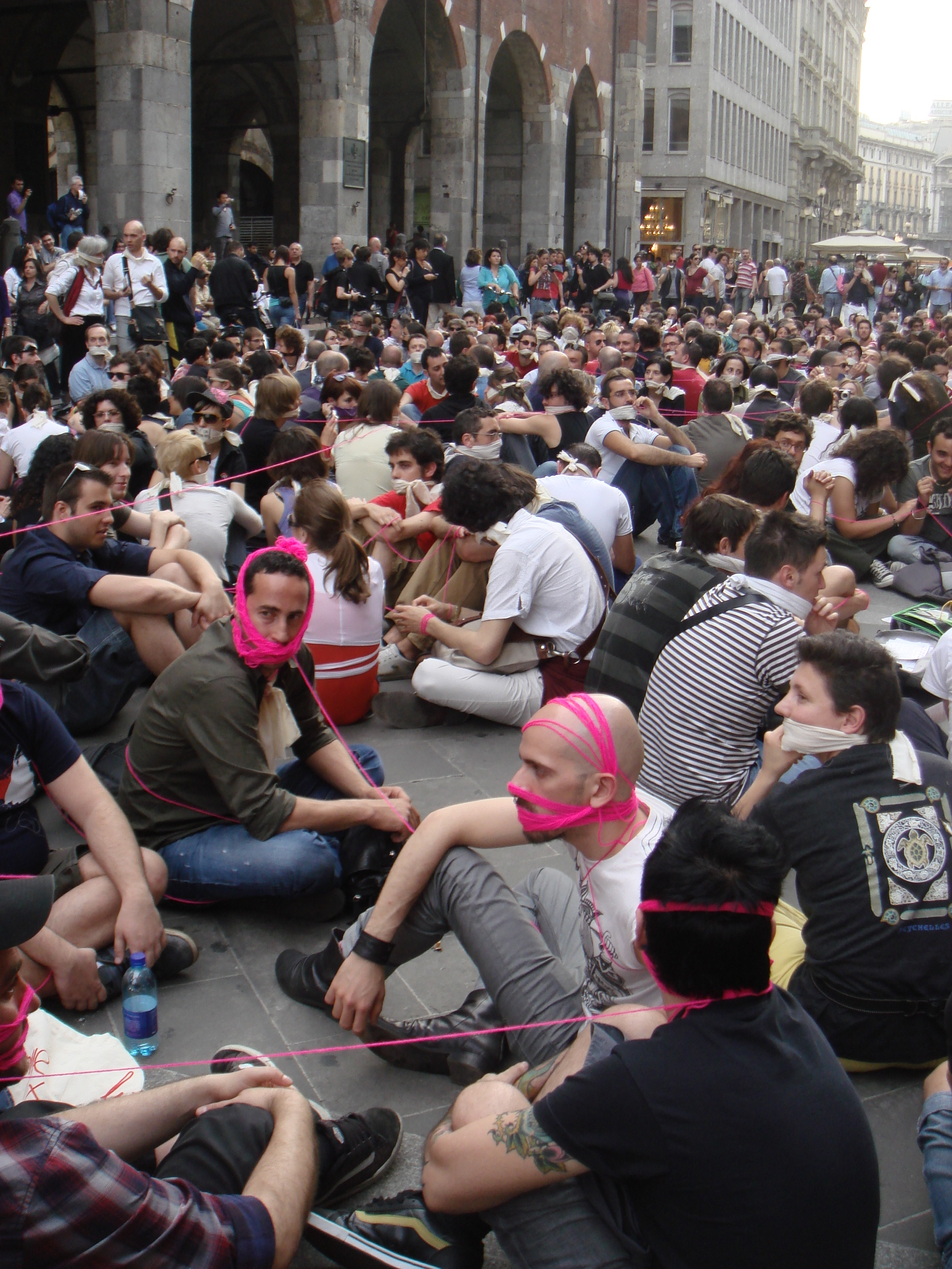 Sit-in against homophobia - , Milan, Italy, May 14, 2009 .